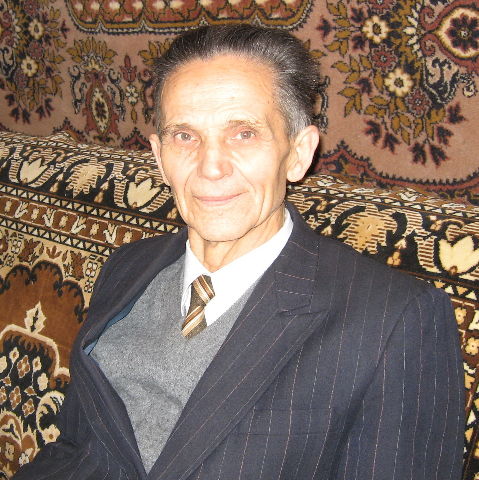 Ukrainian playwright and drama historian Oleksa Chuguy (born 1935)